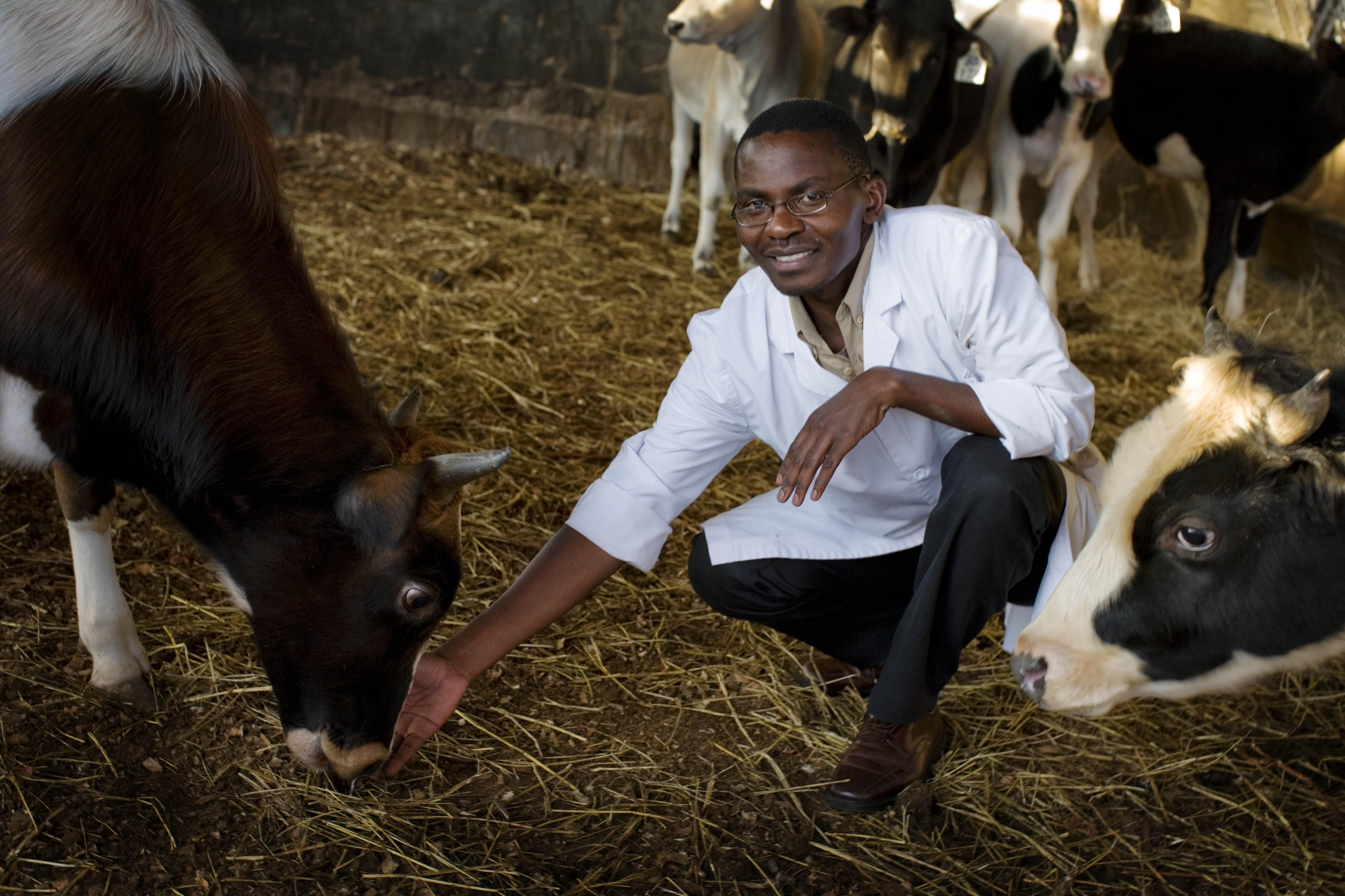 Morris Agaba, a scientist and molecular biologist at the International Livestock Research Institute (ILRI) feeds calves that he has been working with at the ILRI farm in Nairobi, Kenya.